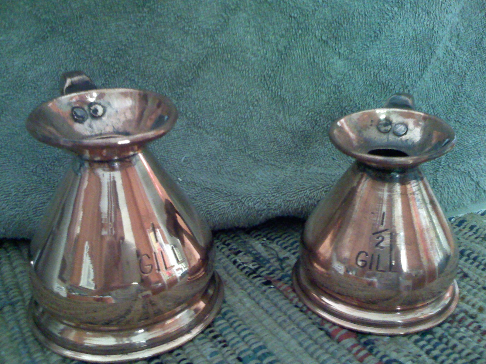 Two copper measuring jugs, the one on the left is a 1 Gill measure and the one on the right is a 1/2 Gill measure.